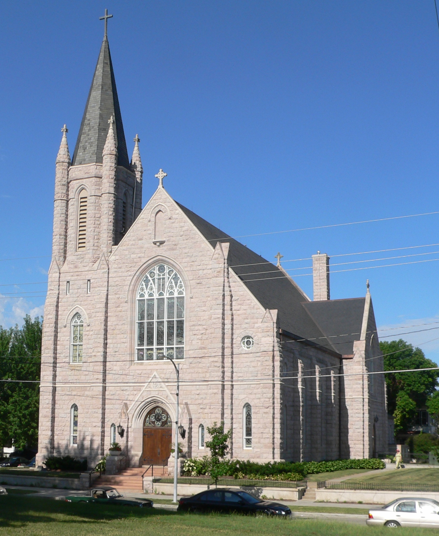 Sacred Heart Church, located at northwest corner of 22nd and Binney Streets in Omaha, Nebraska; seen from the northeast, across 22nd.